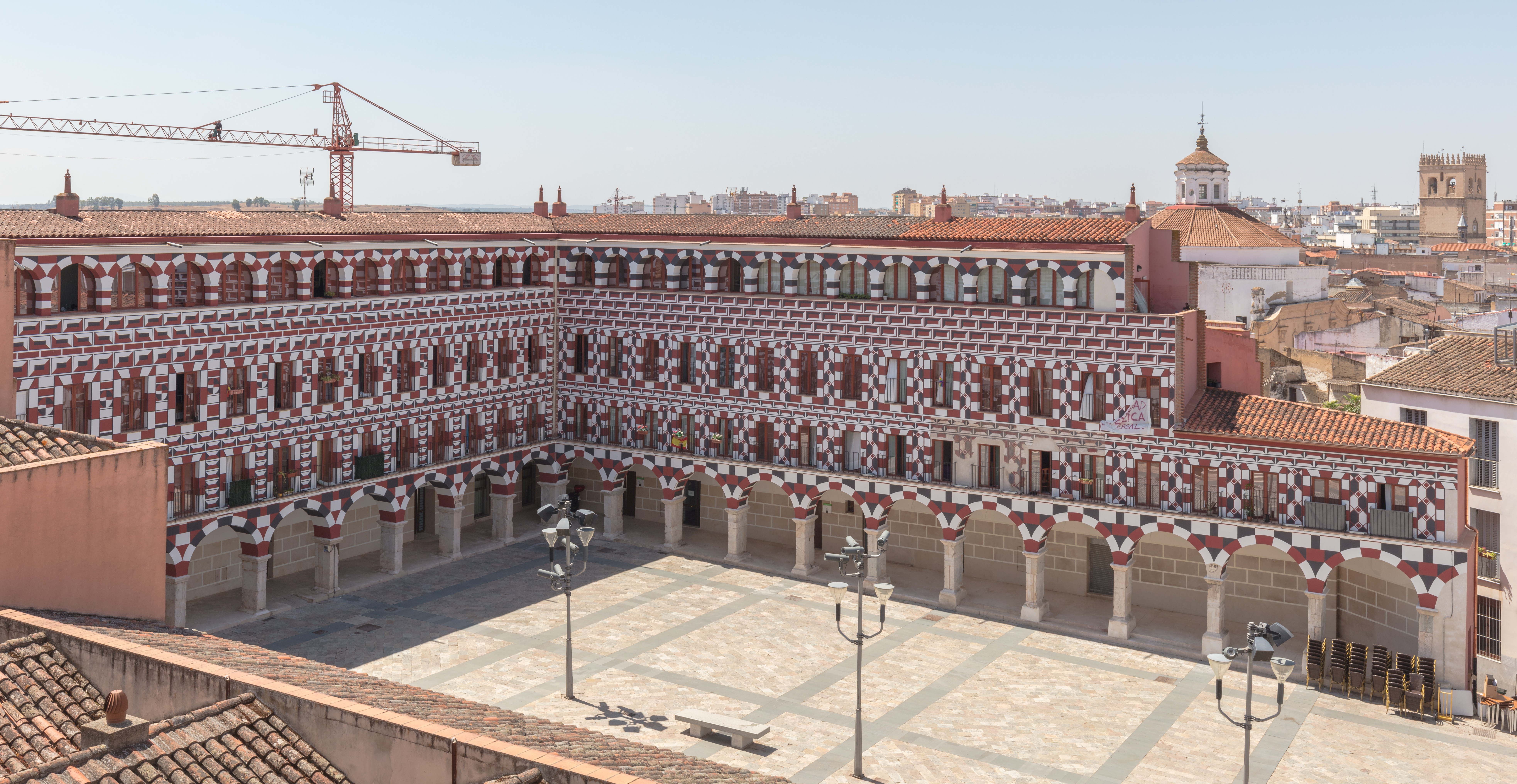 Plaza Alta, Badajoz, Spain